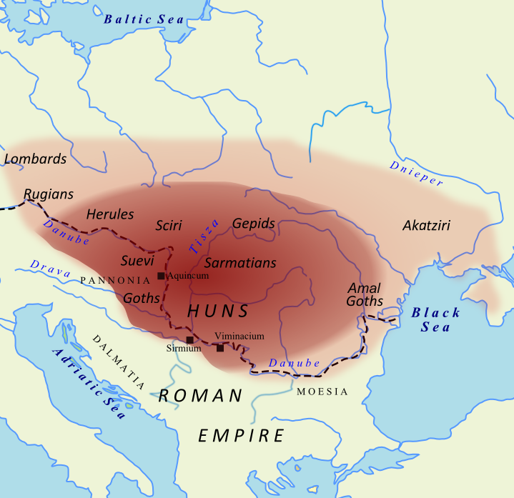 Extent of Attila's Empire. Based on Map 10 Empires and Barbarians. The Fall of Rome and the Birth of Europe. Peter Heather. Oxford University Press, 2010. Map template adapted from user Andrei Nicu